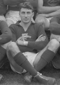 Bert Butler from 1934-1936